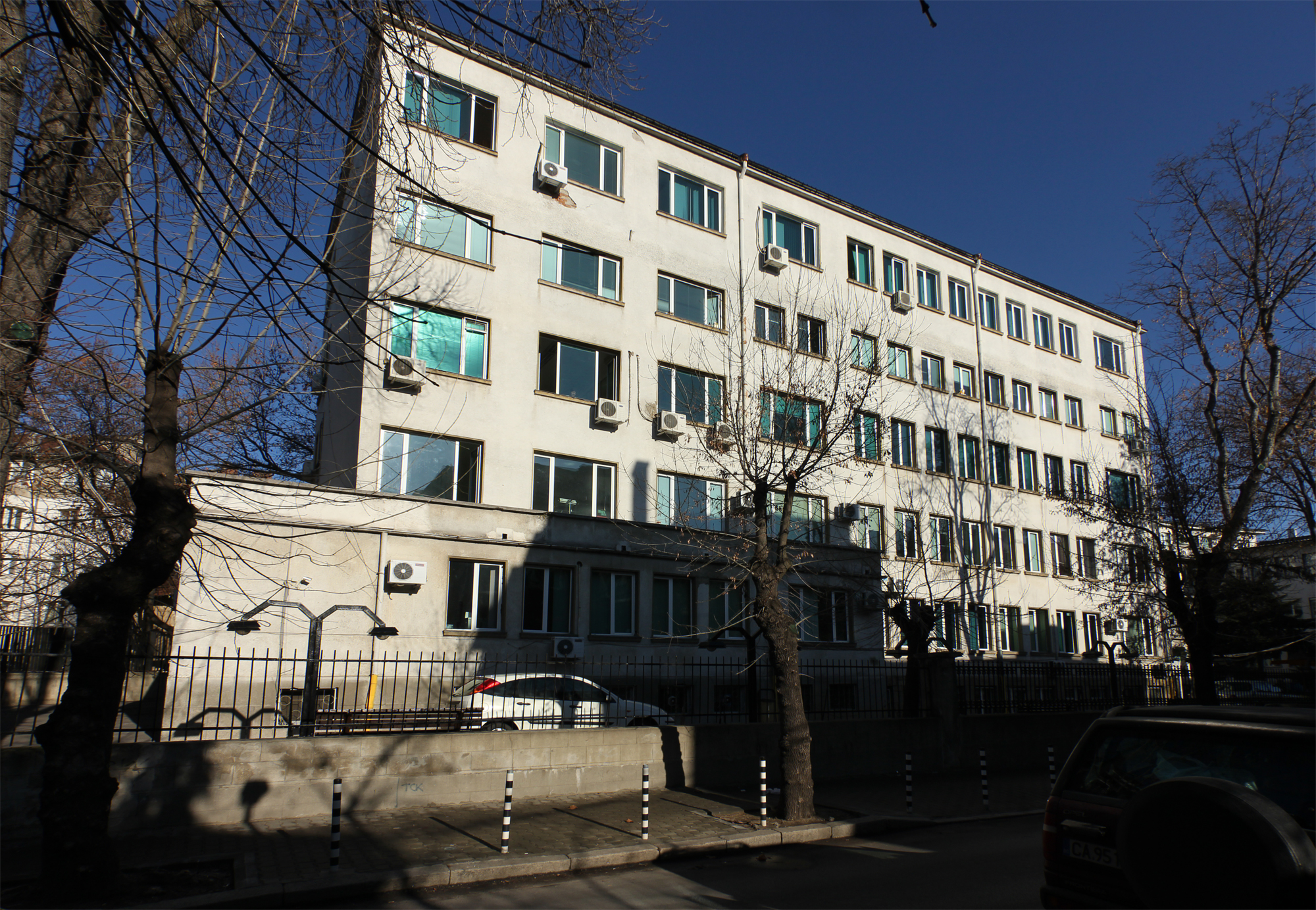 A ward of 2nd Obstetrics and Gynecology Hospital in Sofia "Sheynovo"